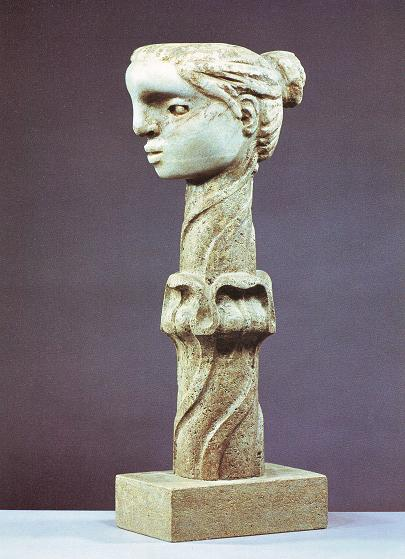 Sculpture „Daphnide“, created by the sculptress Katharina Szelinski-Singer in 1976, marmoreal head on limestone, 56,5 x 15,5 x 25 cm